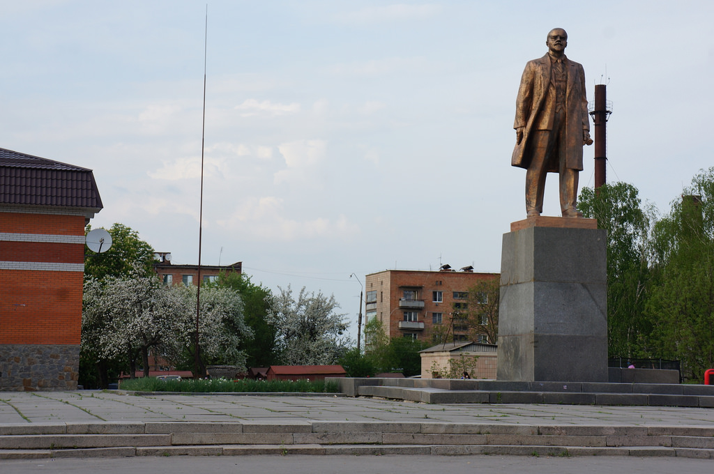 Main square of Mankivka in 2013